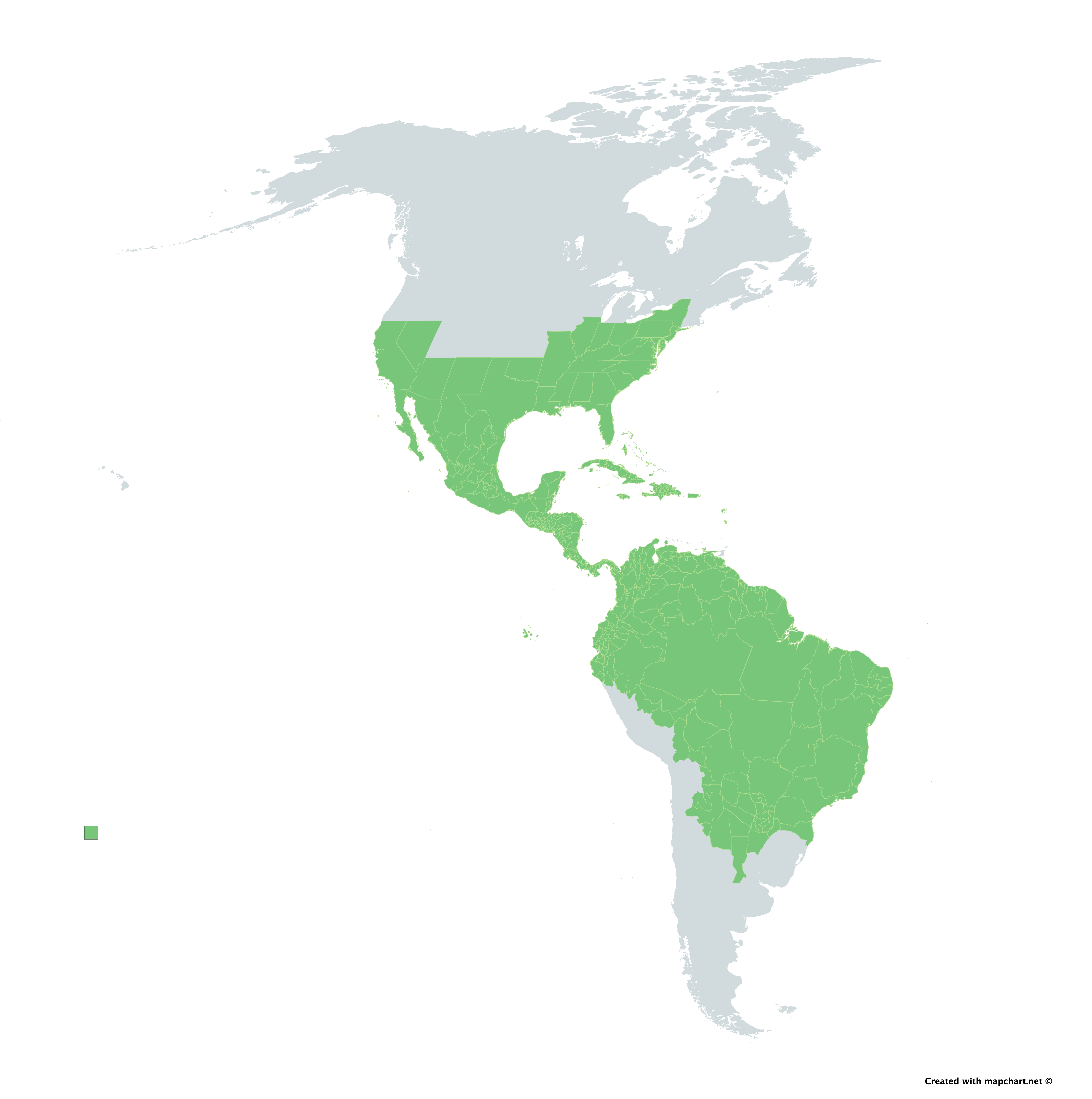 Range of Phoradendron plants by state/province in the Americas shown in green. Source information and map: Kuijt, Job, "Monograph of Phoradendron", and , respectively.